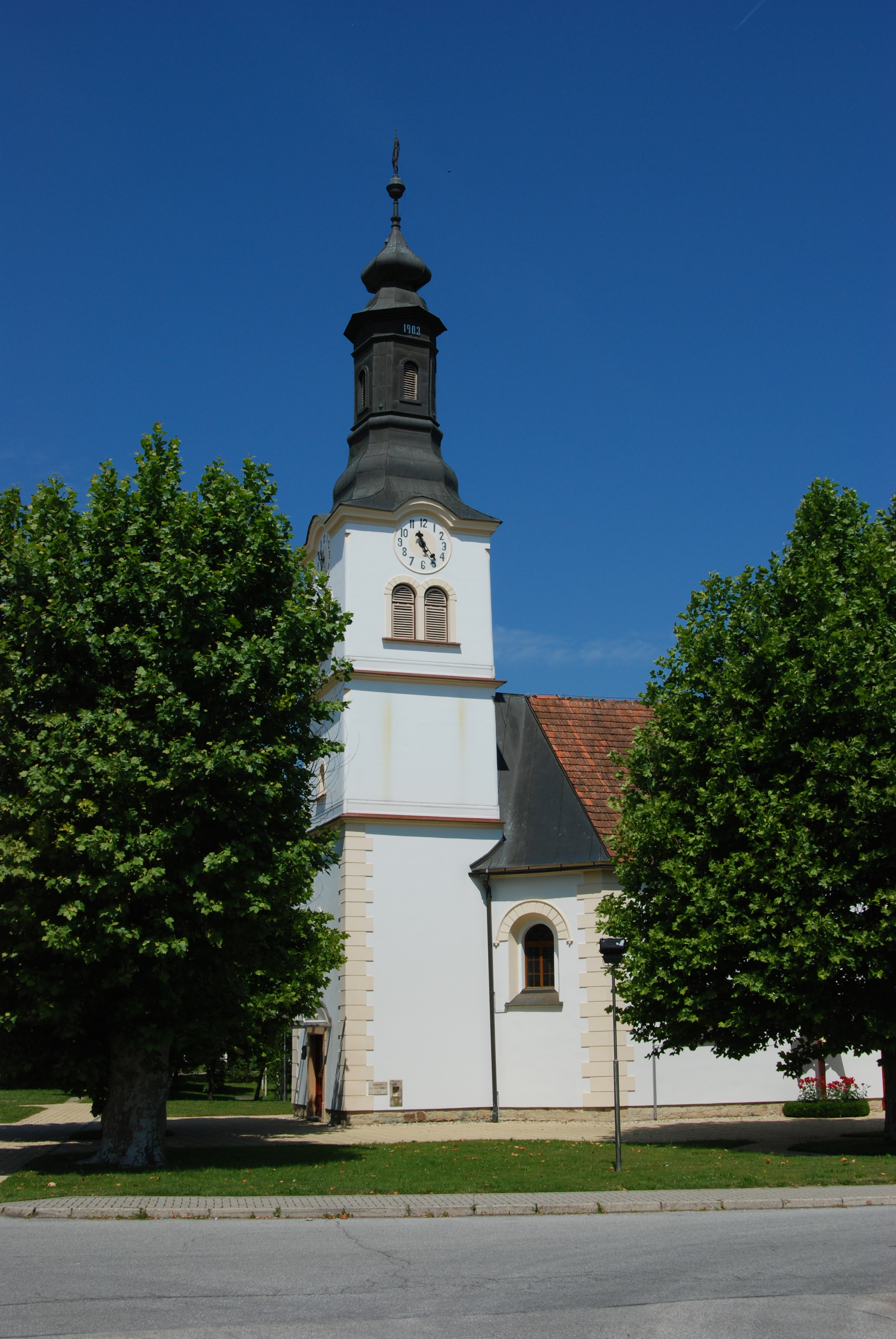 Church Cankova